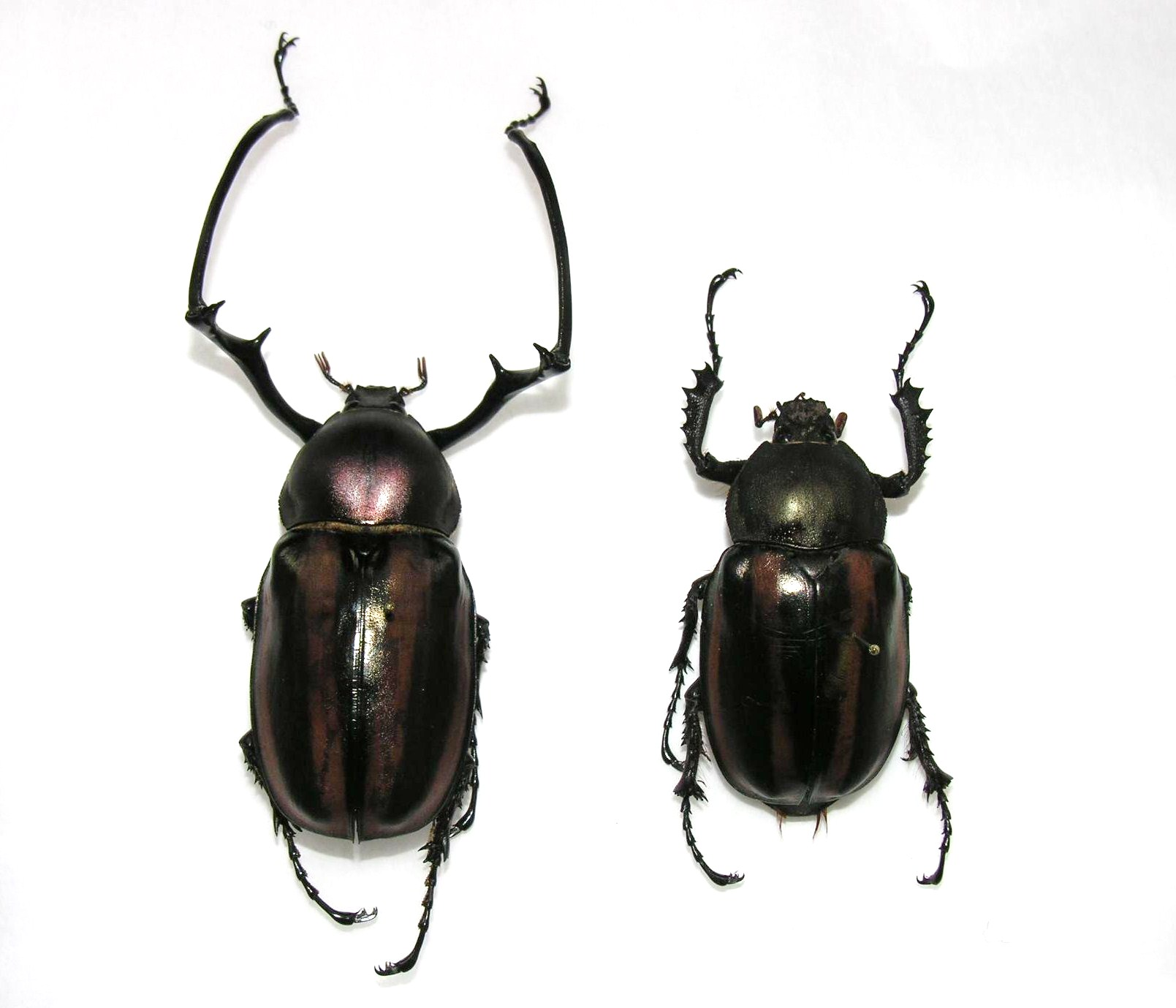 Euchirus dupontianus Burmeister, 1841 Marinduque, Philippines Ex coll. Felix Stumpe